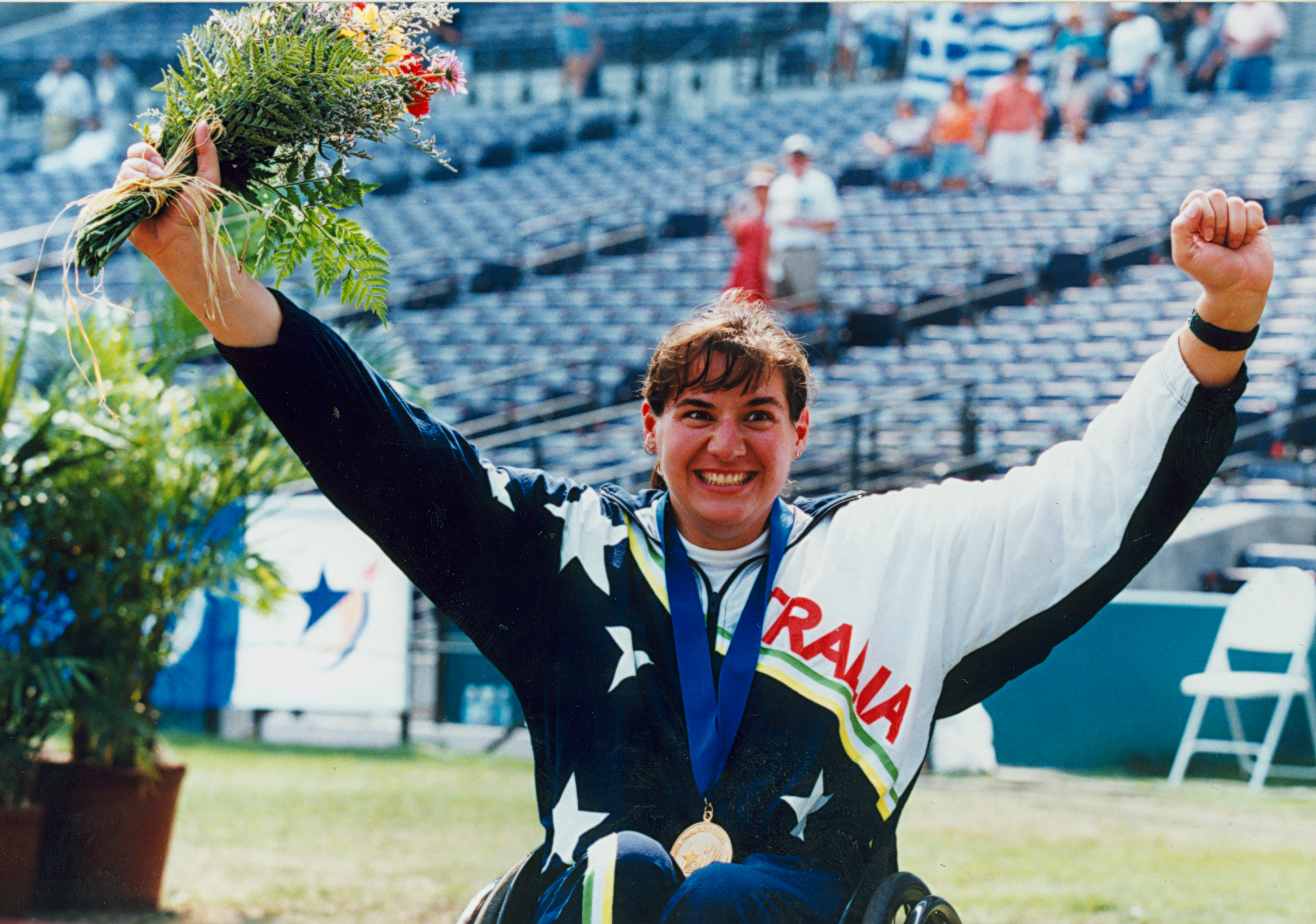 Australian athlete Louise Sauvage seems pleased after being presented with one of her four gold medals at the 1996 Atlanta Paralympic Games